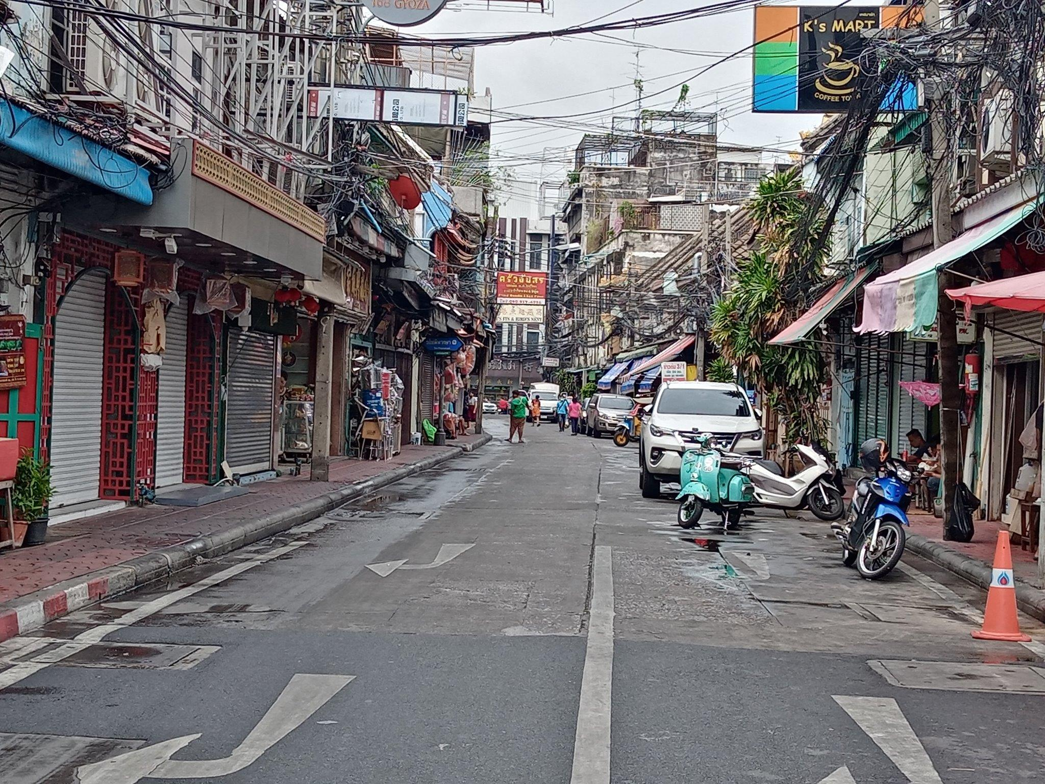 Plaeng Nam Rd, or Soi Plaeng Nam (Plaeng Nam alley), a counterpart of Texas Lane